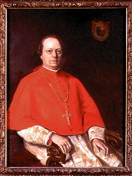 Portrait of Hubert Theophil Simar (1835-1902)